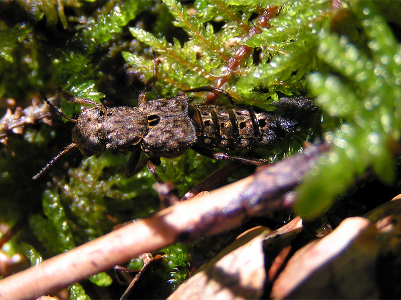 Ontholestes tessellatus - Staphylinidae